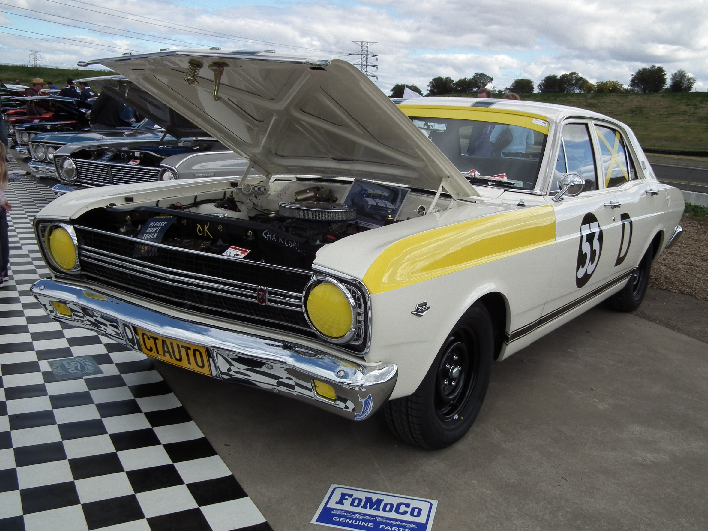 1966 Ford XR Falcon sedan. Replica of the 1967 Ford XR Falcon GT driven by Ian "Pete" Geoghegan and Leo Geoghegan in the 1967 Gallaher 500 held at Mount Panorama, Bathurst. The original car started from pole position and officially finished second behind the sister car driven by Fred Gibson and Barry Seton. The Geoghegan's claimed that due to a lap scoring error they finished ahead of the Gibson/Seton car. Taken at the 2012 New South Wales All Ford Day, held at Sydney Motorsport Park (formerly Eastern Creek Raceway).